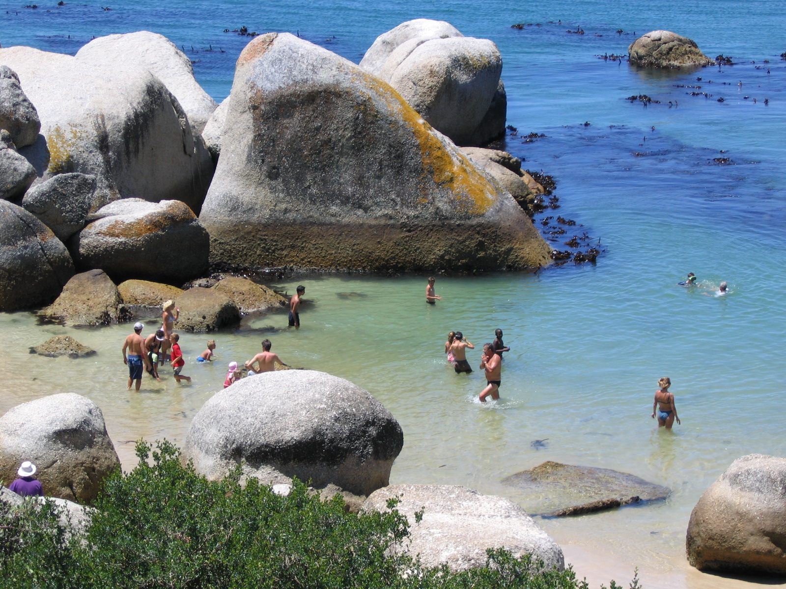 Swimmers at Boulders Beach, Simon's Town, Cape Town, South Africa.